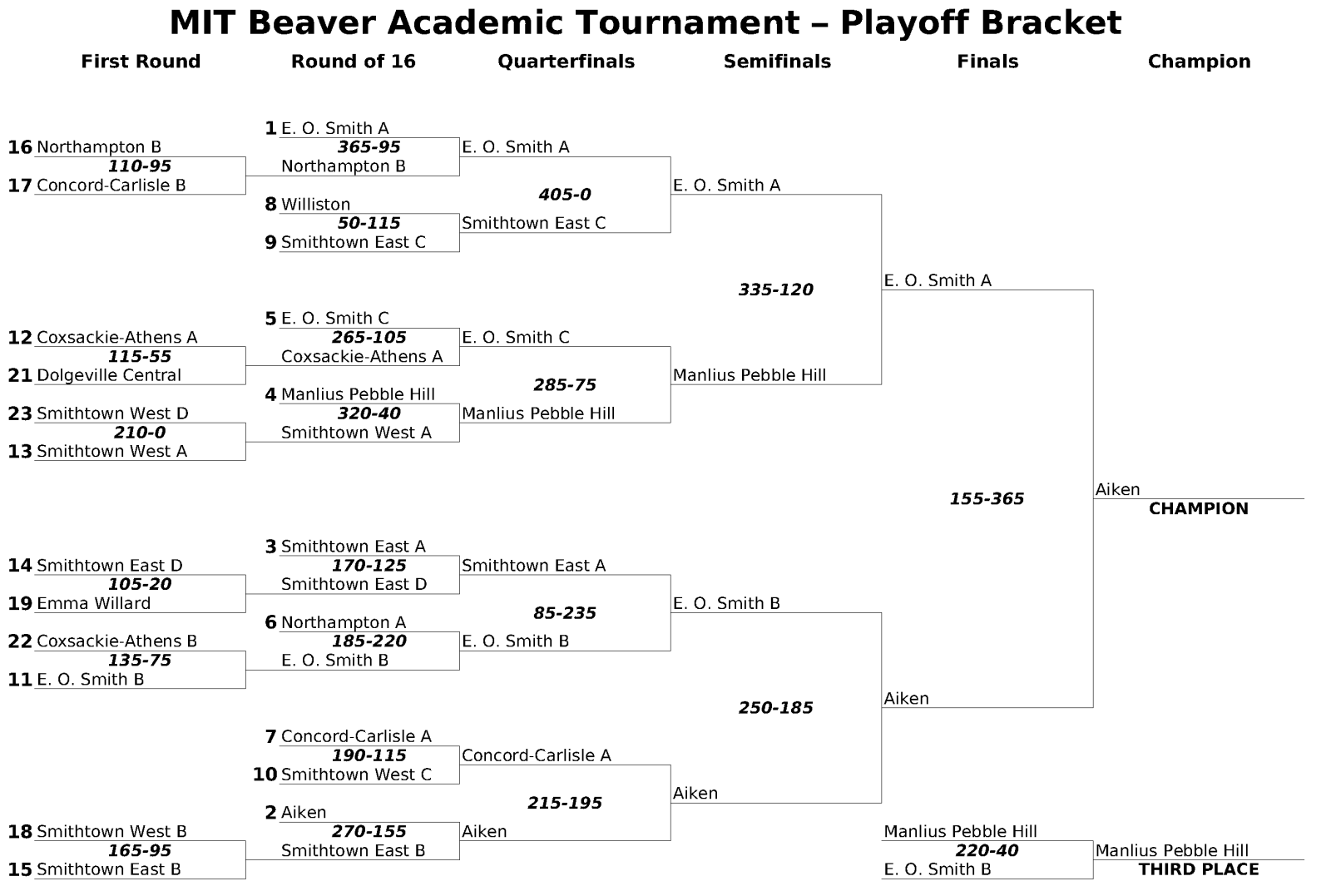 Group-elimination bracket. All entrants were seeded — the bold numbers are seeds. The top 10 teams received byes in the first round. The 20th seed dropped out and was replaced by the 23rd seed.